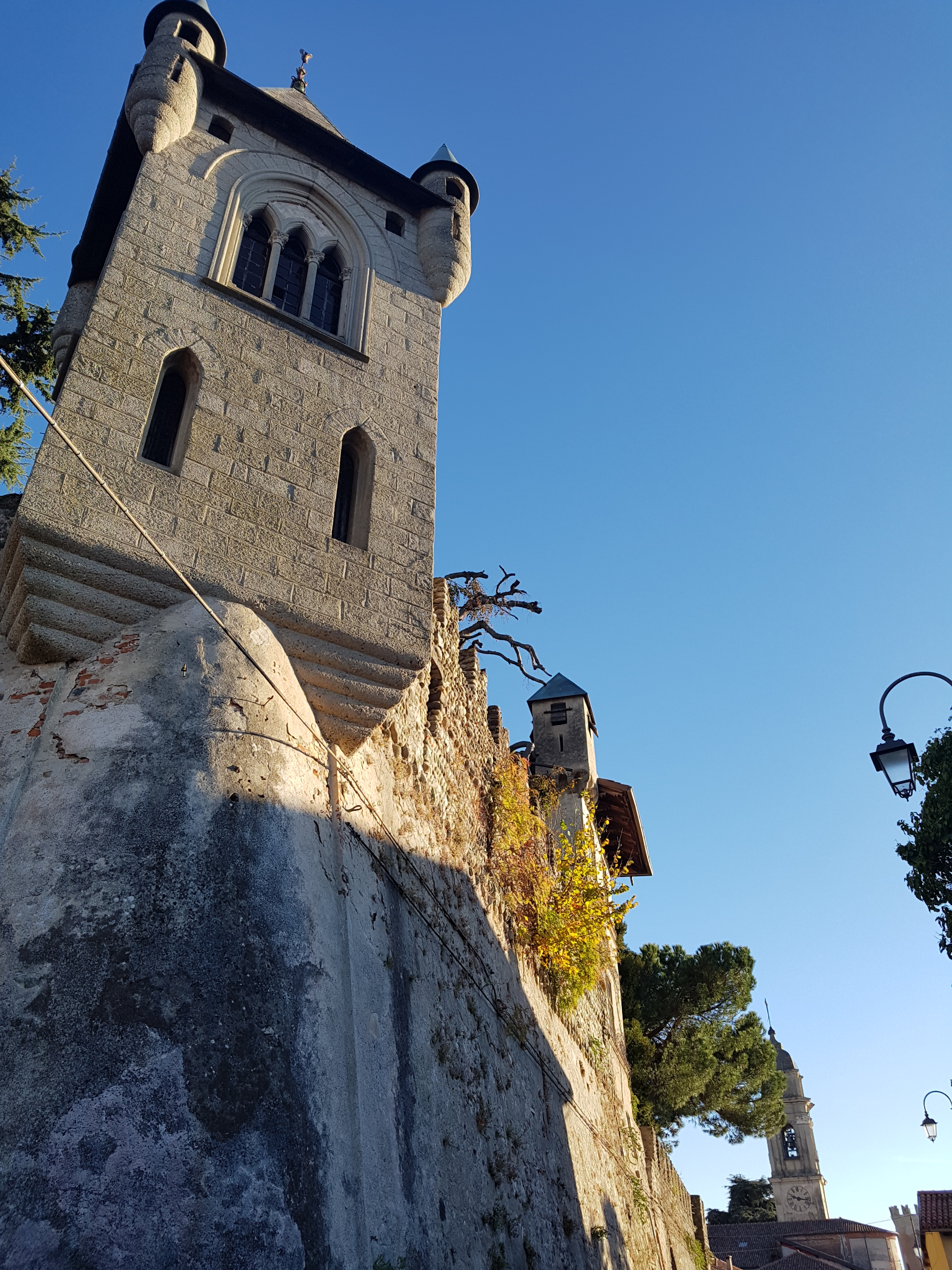 Mazzè Castle, Piedmont, Northern Italy